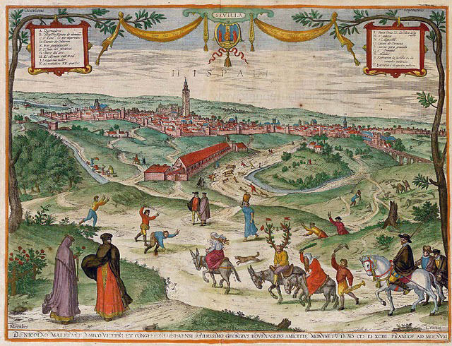 A view of the city of Seville (under its Roman name, Hispalis) published in the third volume of Georg Braun's Civitatis Orbis Terrarum (1597); a somewhat exaggerated perspective taken from viewpoint somewhere near the palace of Buhaira, south-east of the city, looking west or slightly northwest. The lower part of the painting shows a strange scene, itemised in the Key as S: Execution de Justicia de los cornudos patientes and T: Execution de l'acazuettas publicas. The "patient cuckold", a man with bound hands, wearing horns made from leafy branches (or antlers wrapped with greenery?) hung with bells and flags, and his adulterous wife (half-dressed and surrounded by a swarm of bees) riding asses, presumably as a punishment for their shameful behaviour. Or is his wife the woman on the third ass, who appears to be beating him, and is in turn being beaten with a strap or belt by the man with a trumpet? Onlookers are making the cabrón, the obscene sign of the horns.